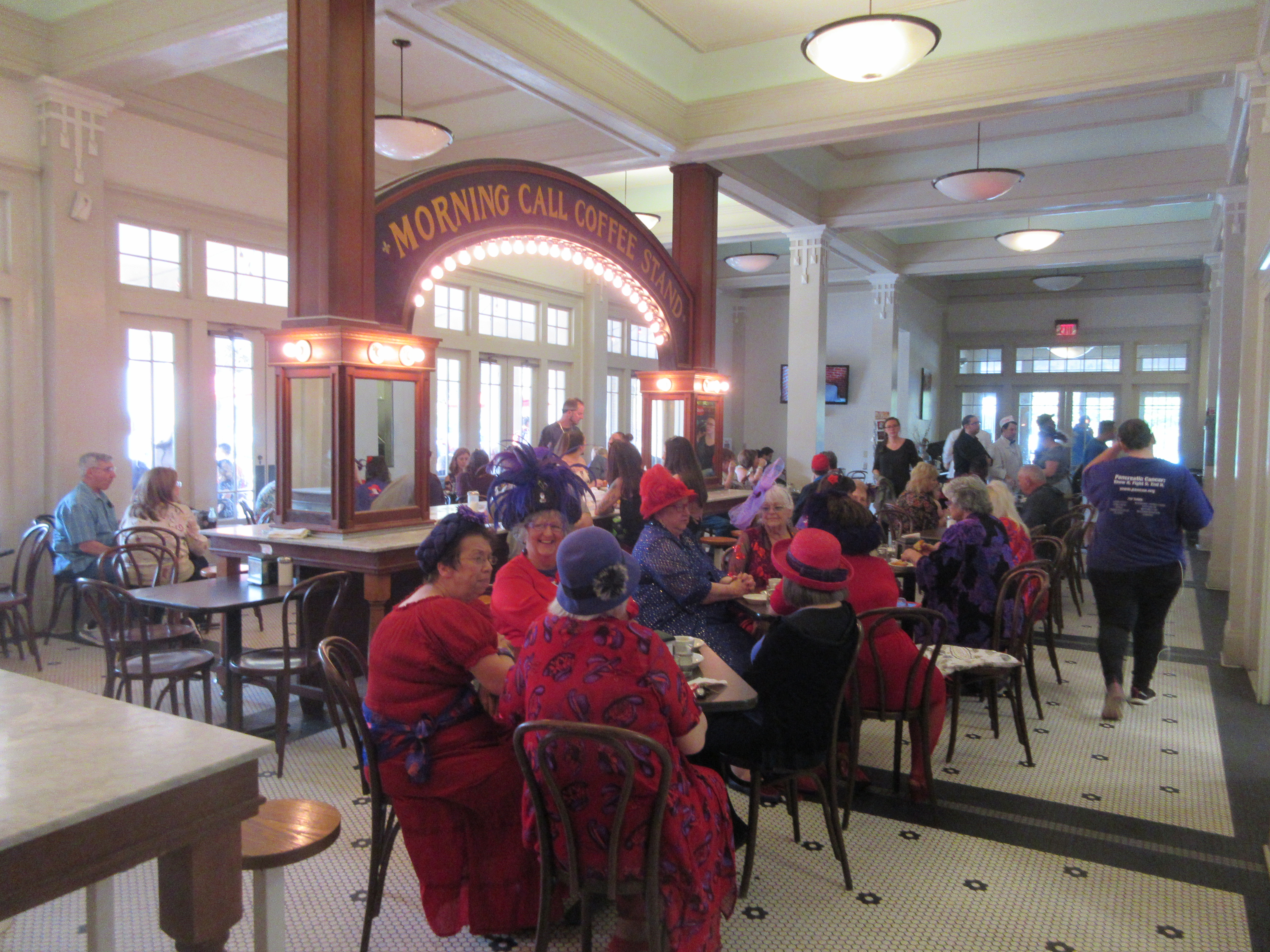 Morning Call cafe, City Park, New Orleans. Photo by Infrogmation of New Orleans, 11 March, 2018. Free reuse with author attribution in accordance with any of the licenses listed by the author/photographer. Reuse without photo attribution is a violation of copyright.